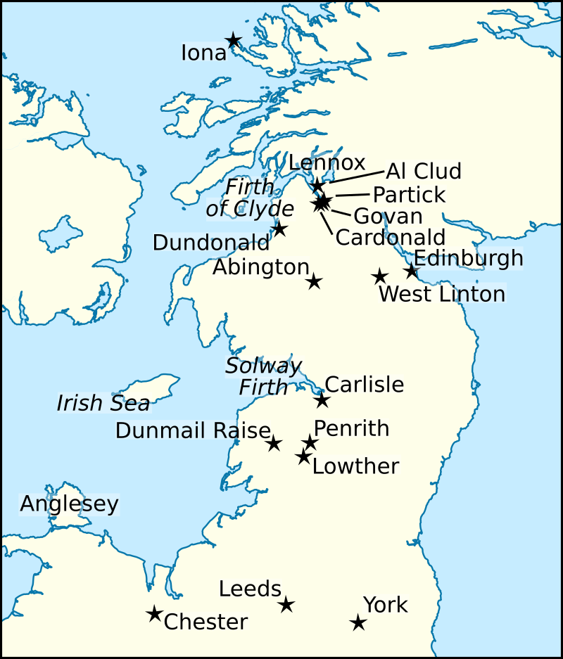 Map for the Wikipedia article concerning Dyfnwal ab Owain, King of the Cumbrians (died 975).